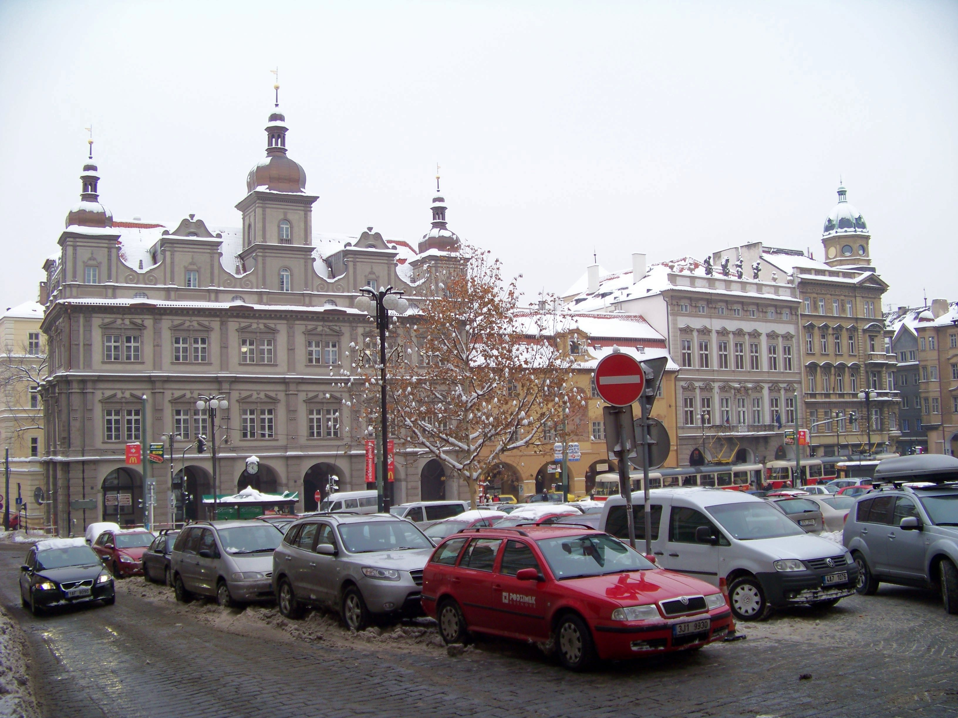 Prague-Malá Strana, the Czech Republic. Malostranské Square. - Google Maps - Google Earth